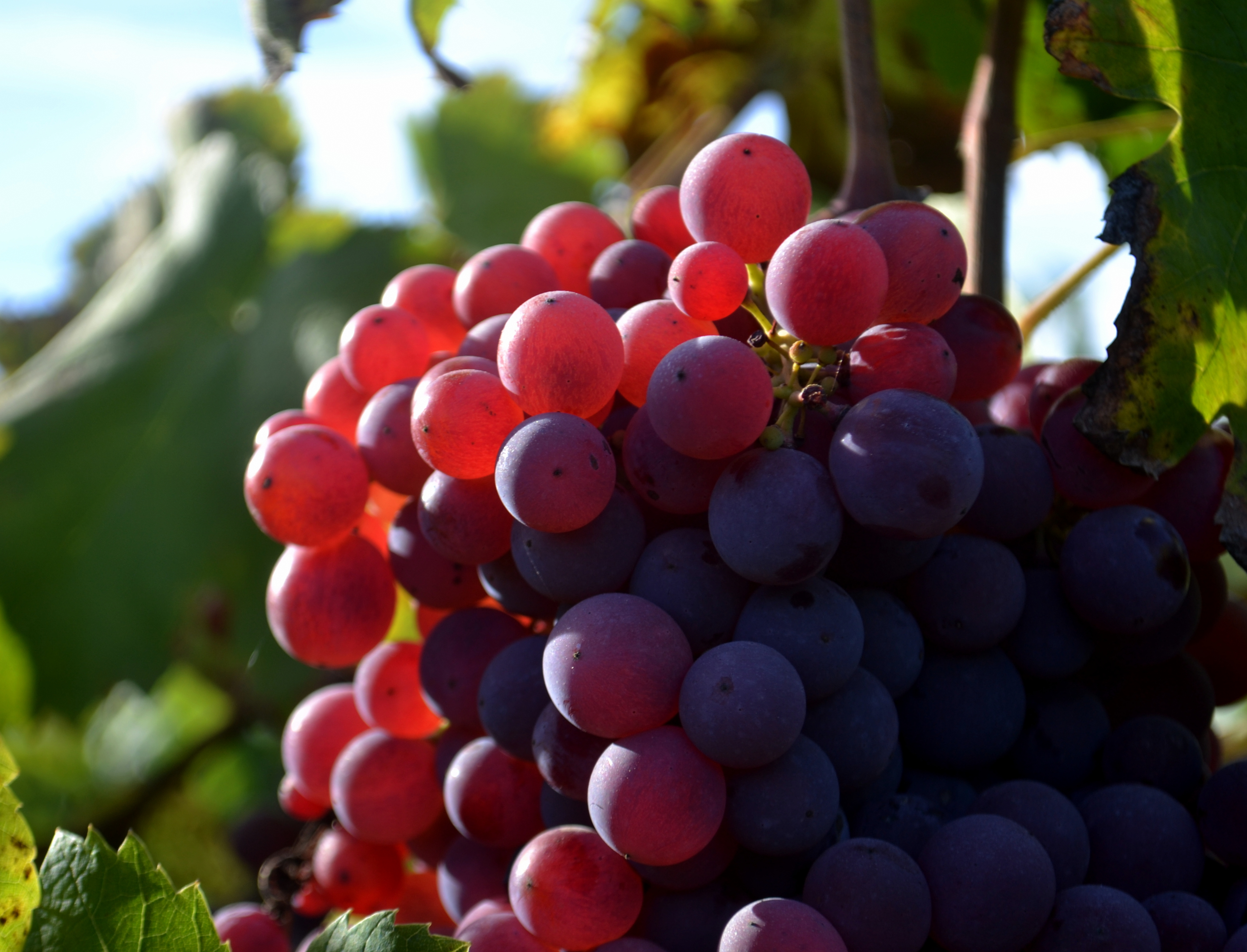 Raïms de xarel·lo vermell. Torrelles de Foix (Alt Penedès).